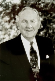 Photograph of Kendall D. Garff, founder of Ken Garff Automotive Group